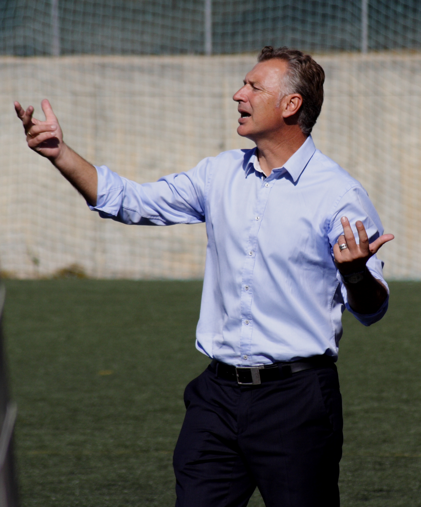 Antonio Rivas as a coach at Alcorcon B